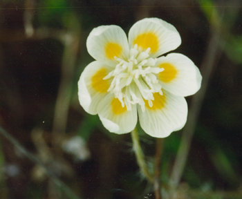 Platystemon californicus — Creamcups. At Cuyamaca Rancho State Park in the Laguna Mountains, San Diego County, California.